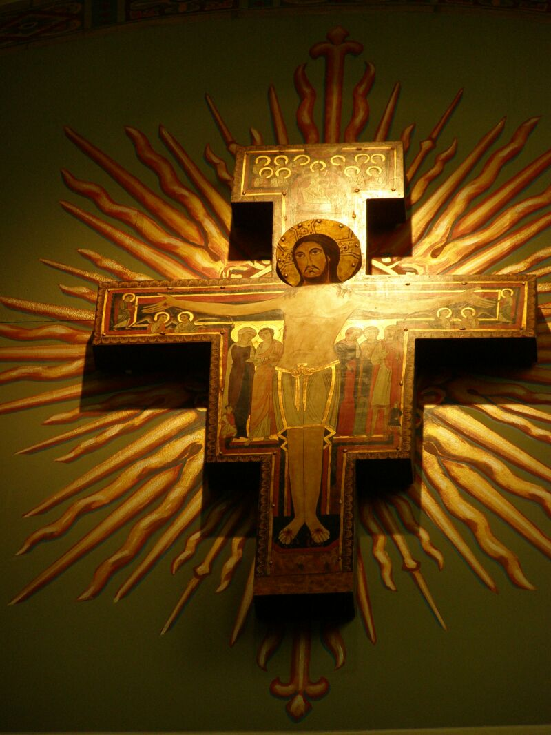 San Damiano Crucifix (replica) in Cathedral of St. Francis, Santa Fe, New Mexico